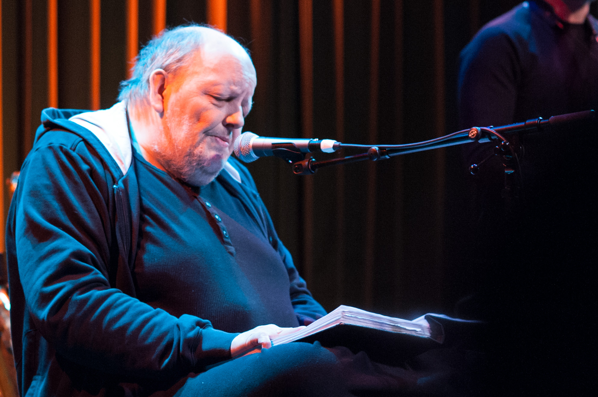 Freddie Wadling performing at Bryggarsalen in Stockholm, Sweden, April 2011